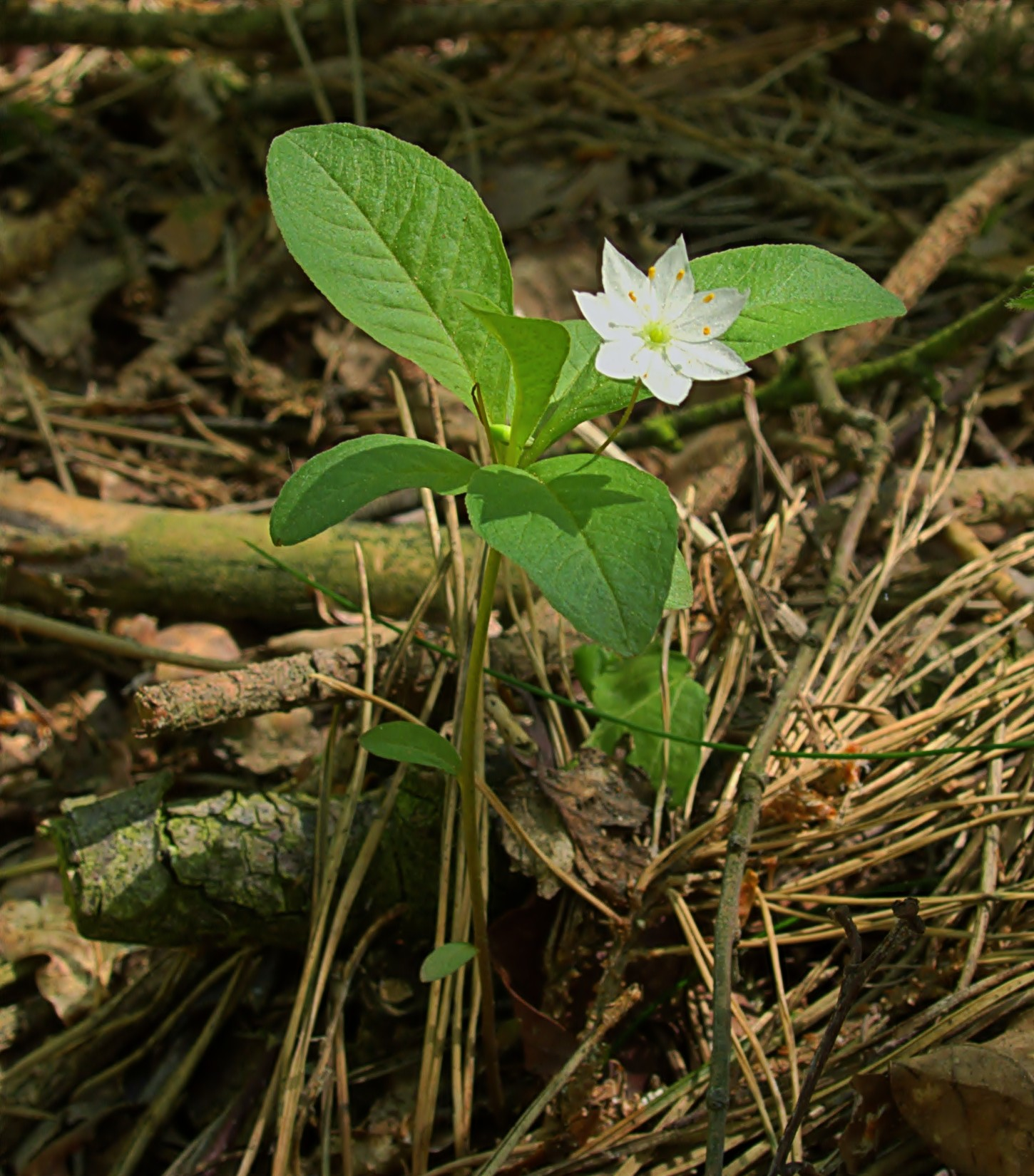 Name: Trientalis europaea. Family: Myrsinaceae. Location: Münster, NRW, Germany